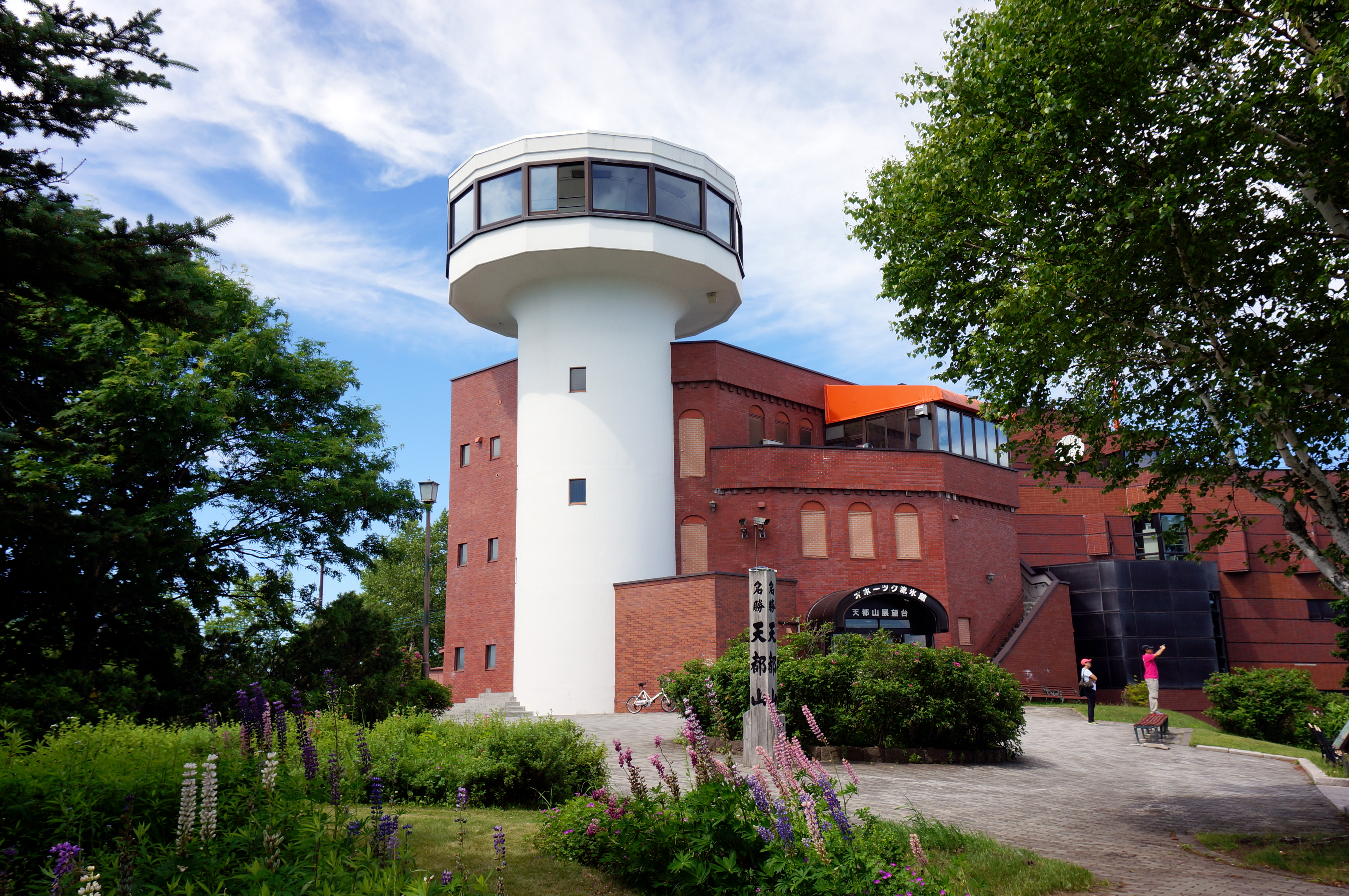 Okhotsk Ryu-hyo Museum in Abashiri, Hokkaido, Japan.